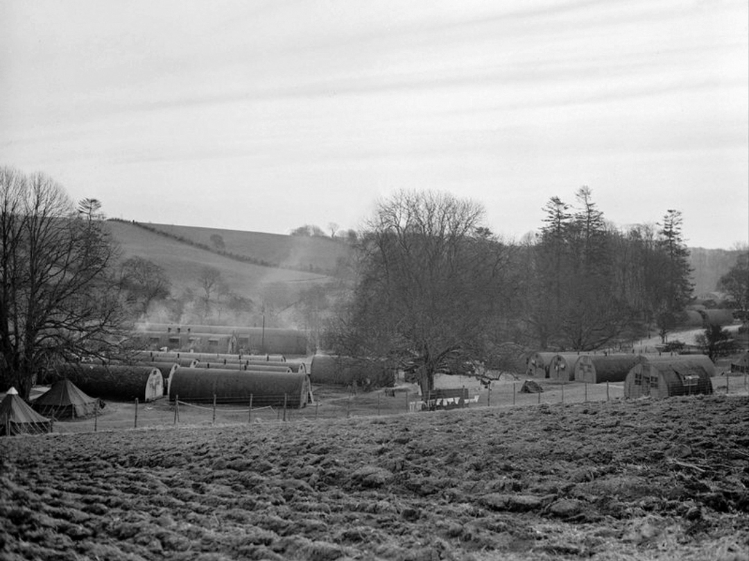 During the Second World War, units of the United States Army were quartered near the historic country house "Mount Panther" between the villages of Dundrum and Clough in County Down, Northern Ireland. The following units were stationed here: 2nd Battalion of the 1st Armored Association of 1st Armored Division, the 13th Infantry unit of the 8th Infantry Division and the 21st Field Artillery Battalion of the 5th Division. In addition companies B and C from the 818th Tank Destroyer Battalion, were quartered at Mount Panther between November 1943 and February 1944. The picture shows the camp of the 21st Field Artillery on March 10, 1944. Note the laundry that hangs on the fence to dry. Today the site of the so-called Nissen huts made of corrugated iron after the Canadian engineer and officer Peter Norman Nissen in the photograph is buried beneath the A2 road, with only few sections of concrete beside it giving any clue to the camps existence.